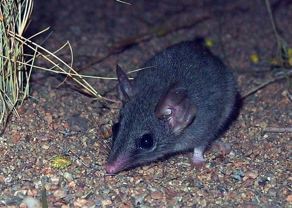 Phascogale calura Alice Springs Desert Park